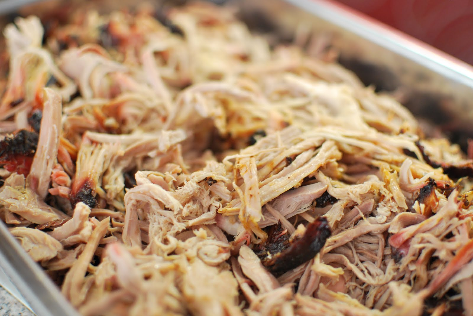 Pulled pork